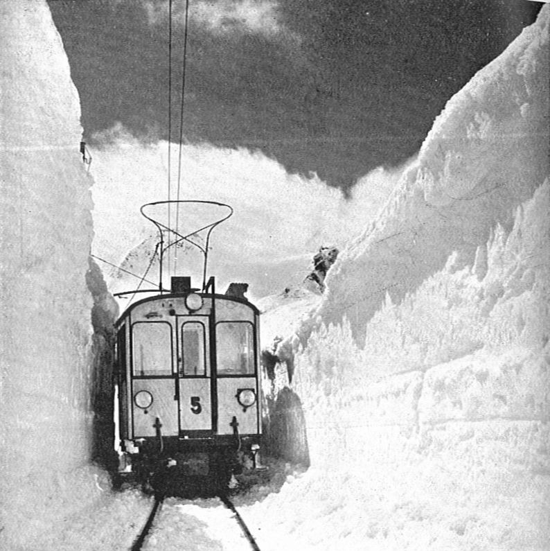 A Snow "Canal" (15ft Deep) on the Bernina Railway, Switzerland This has been cut out by a Rotary Plough Photo: Swiss Federal Rys.